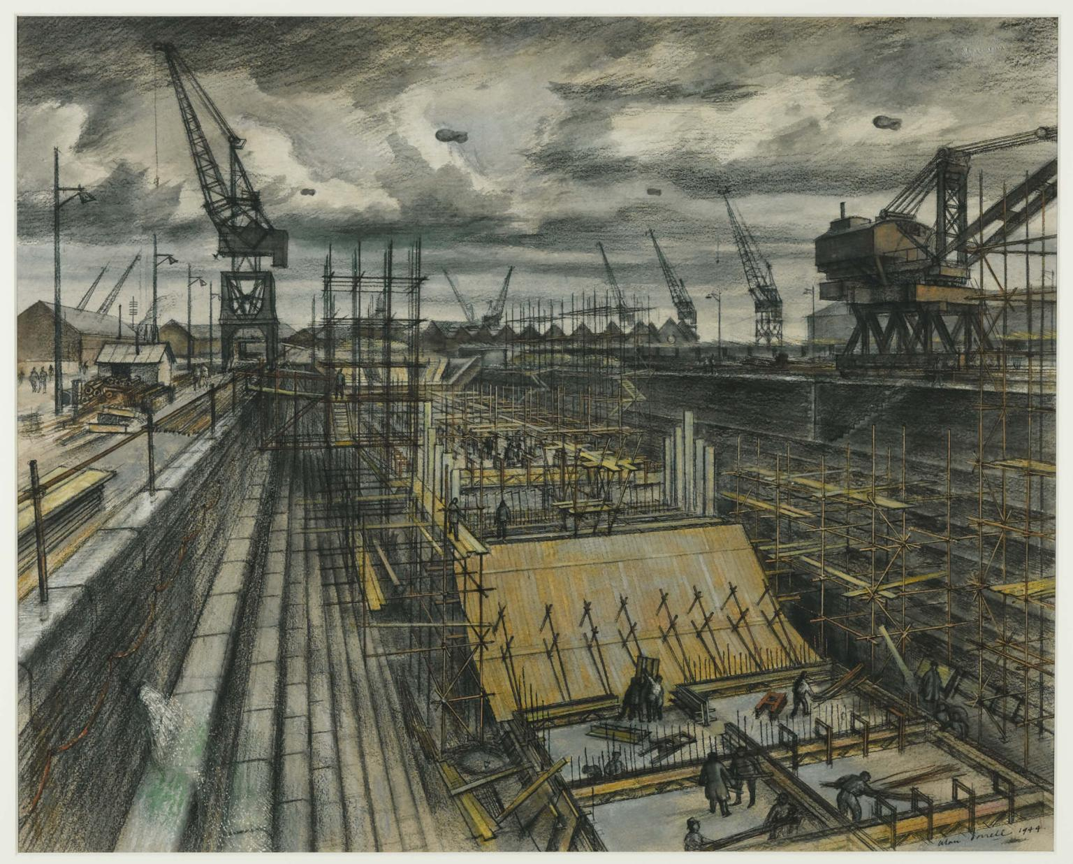 Southampton Dock 1944 Alan Sorrell 1904-1974 Presented by the War Artists Advisory Committee 1946